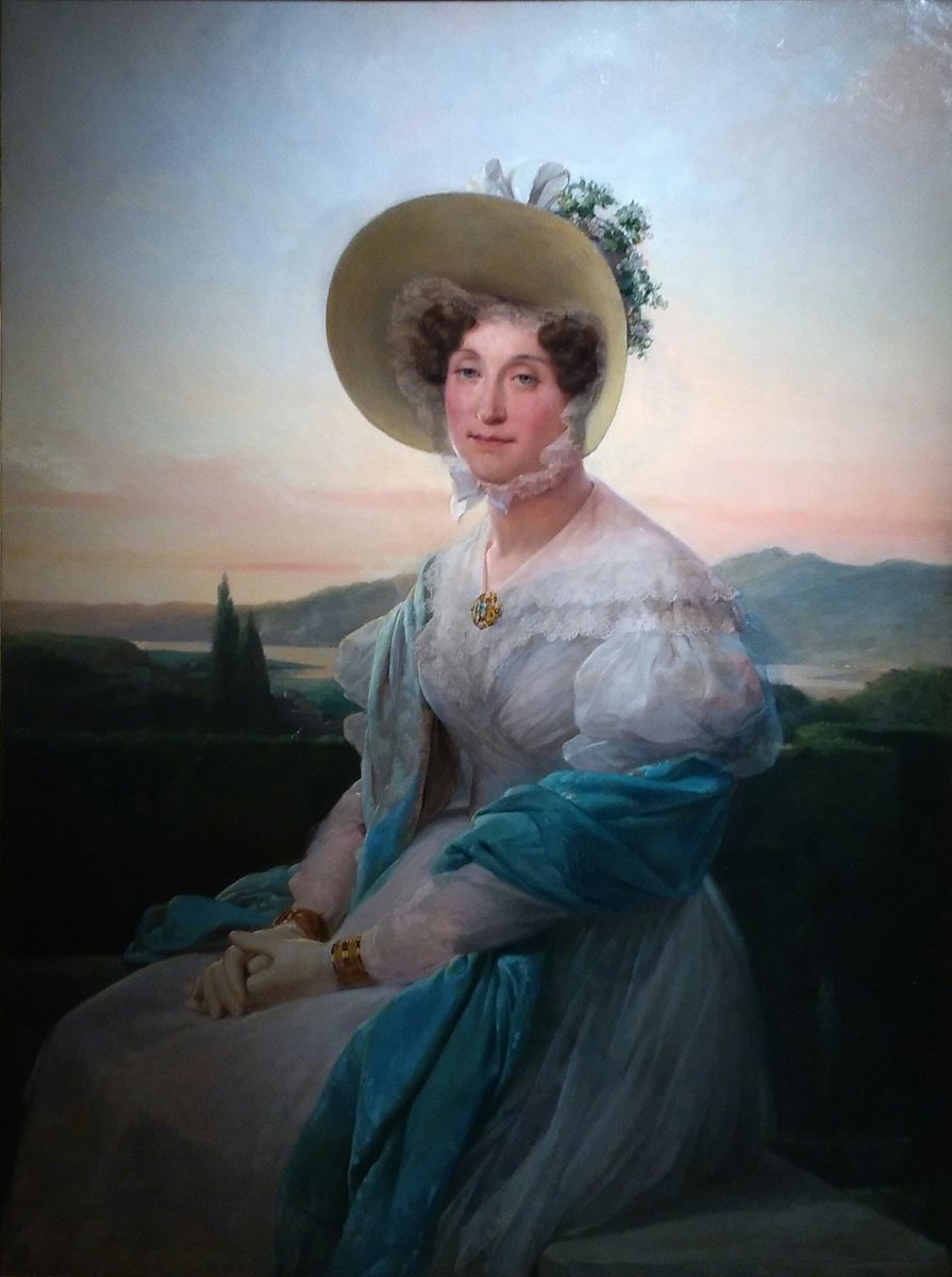 Princess Adélaide of Orléans